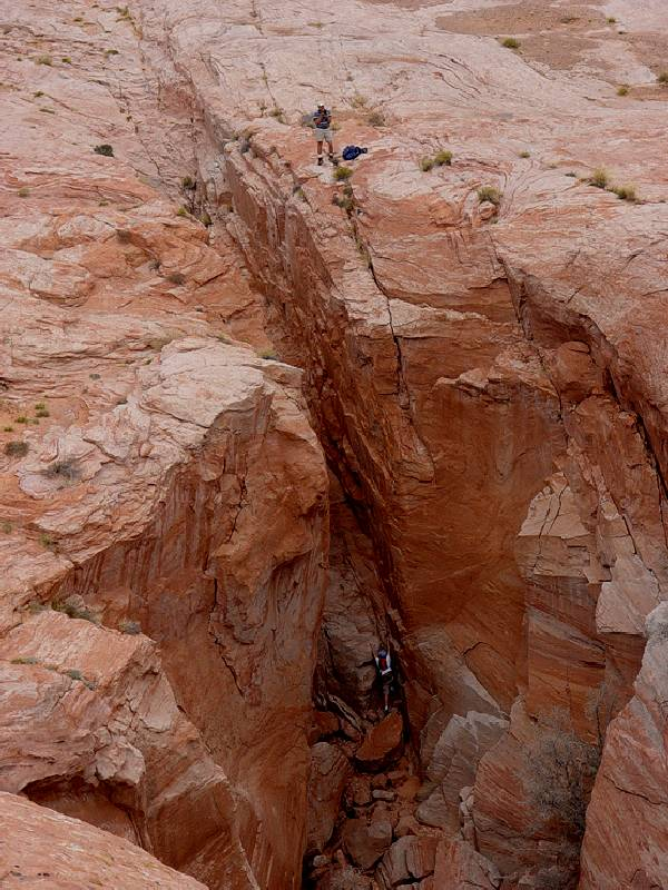 Hikers climb through the upper section of Hole-in-the-Rock (NPS). Contents 1 Licensing 2 Source 3 Licensing 4 Original upload log Licensing NPS image from Source (downloaded from NPS site ) (photographer not listed)